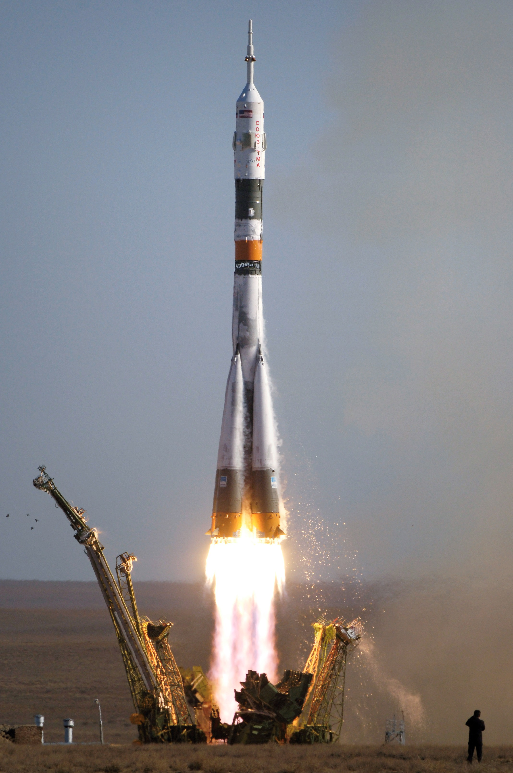 JSC2006-E-40672 (18 Sept. 2006) --- The Soyuz TMA-9 spacecraft launches from the Baikonur Cosmodrome in Kazakhstan Sept. 18, 2006 carrying a new crew to the International Space Station. The Soyuz lifted off at 10:09 a.m. Baikonur time with astronaut Michael E. Lopez-Alegria, Expedition 14 commander and NASA space station science officer; cosmonaut Mikhail Tyurin, Soyuz commander and flight engineer representing Russia's Federal Space Agency; and spaceflight participant Anousheh Ansari, who will spend nine days on the station under a commercial agreement with the Russian Federal Space Agency.